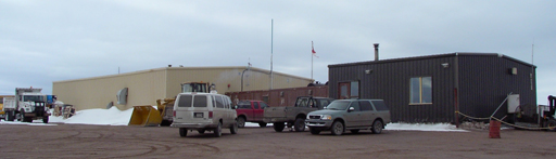 by Technicalglitch